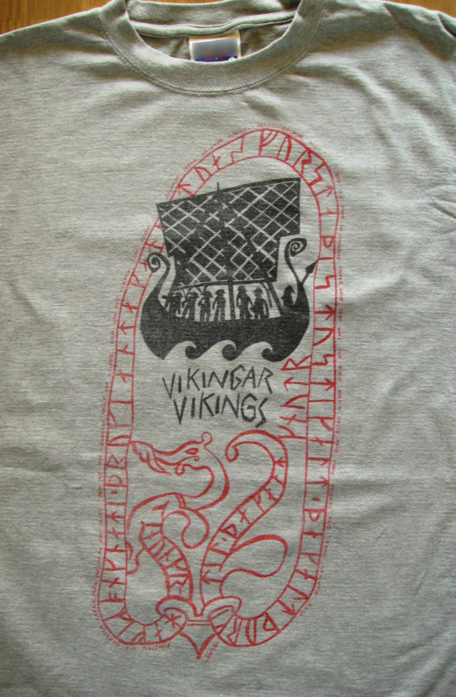 inscription on runic stone Upplands runinskrifter U344 on a t-shirt